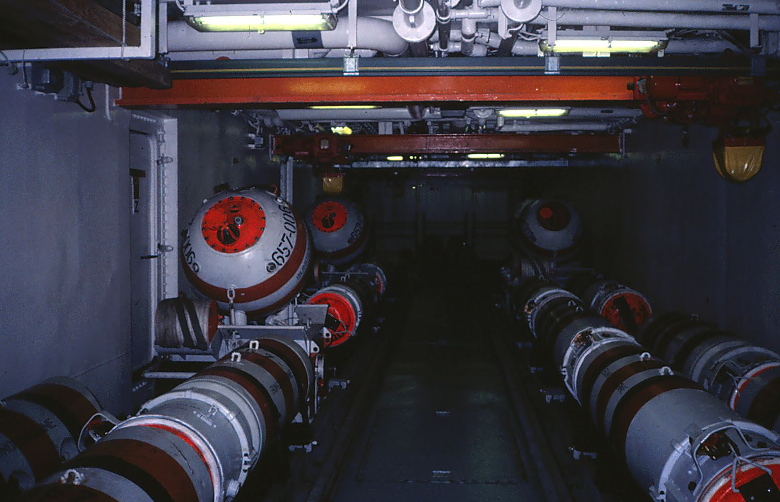 Dummy mines on the minedeck on the Danish Navel Ship N44 "Lossen", ready to be droppet. April 23, 1996.